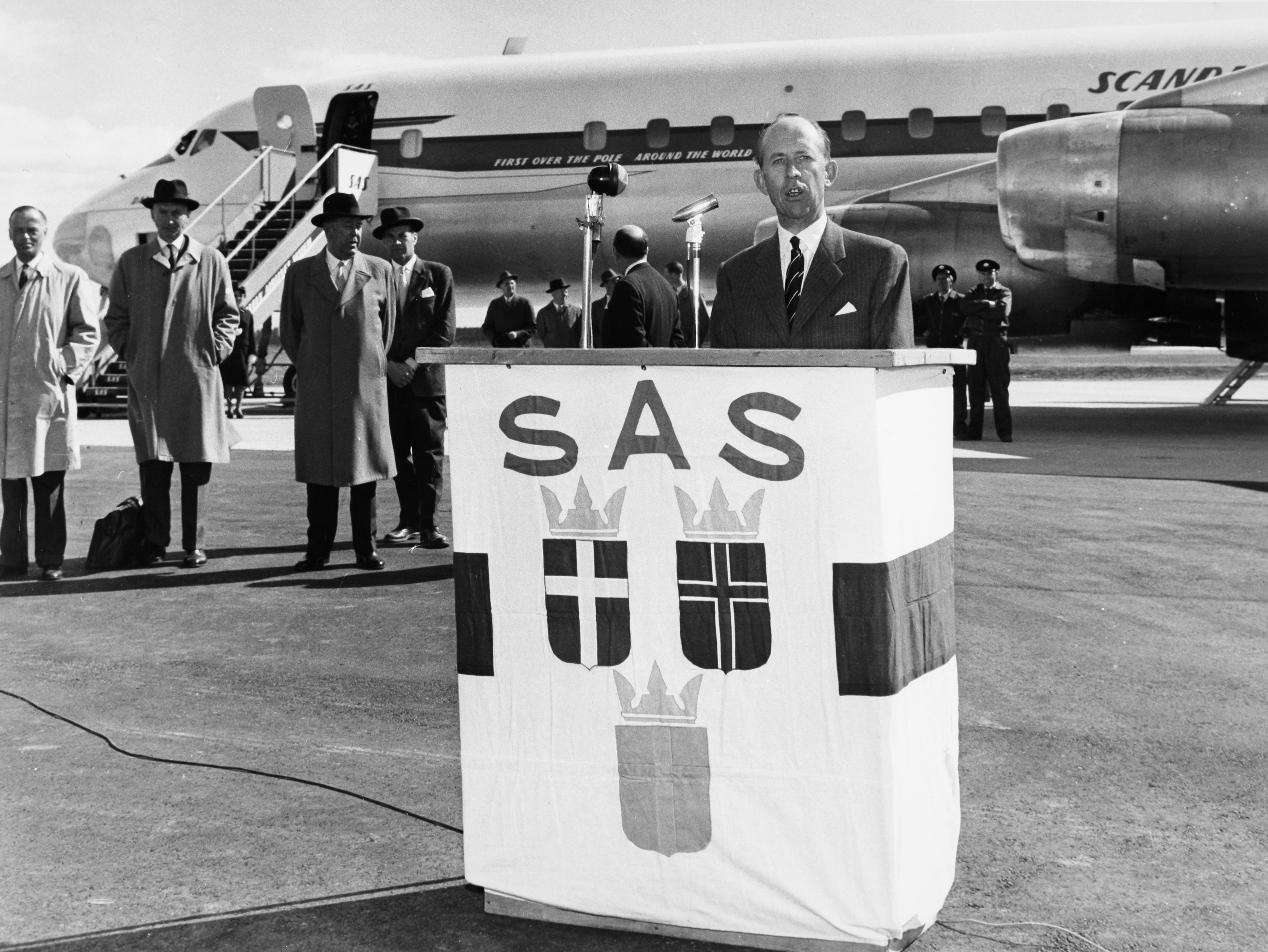 Gardemoen Airport OSL, Oslo. Inaugural flight SK 921 Arlanda-Gardemoen-New York 1961-04-19 with SAS DC-8 Dan Viking OY-KTA. SAS director region Norway Johan Nerum